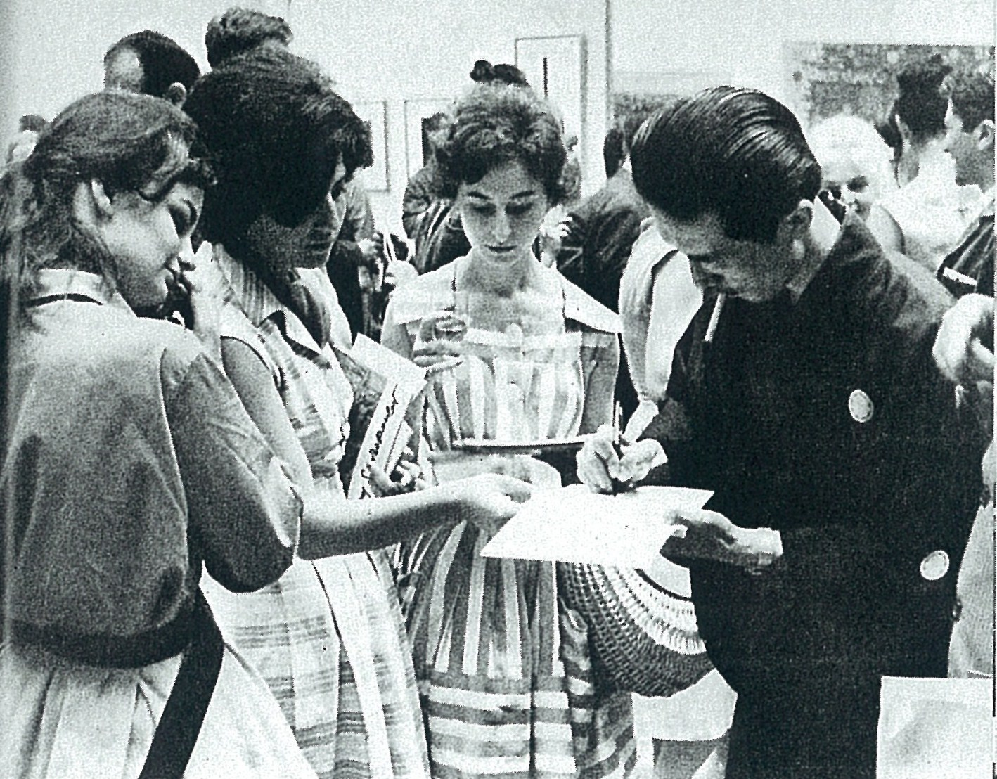 Toshimitsu Imai is a Japanese painter.